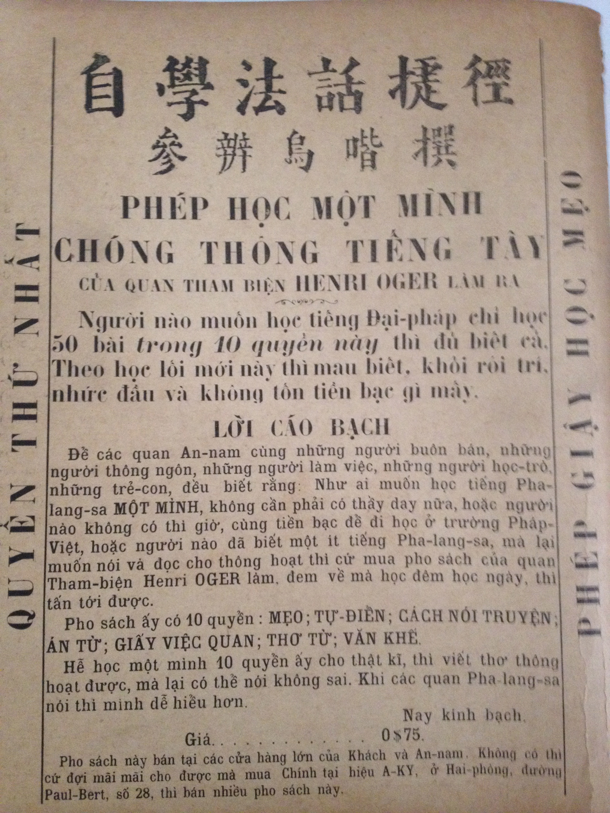 Teach yourself French